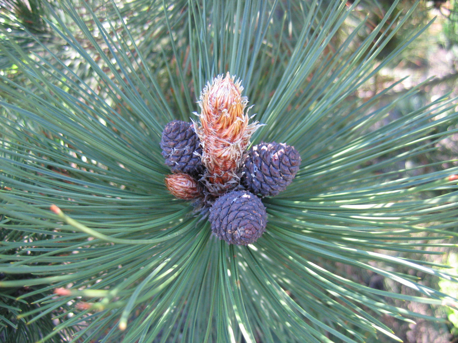 Bosnian Pine cultivar 'Satellit' (Pinus heldreichii 'Satellit'), young seed cones. Tree cultivated in Wrocław University Botanical Garden, Wrocław, Poland.